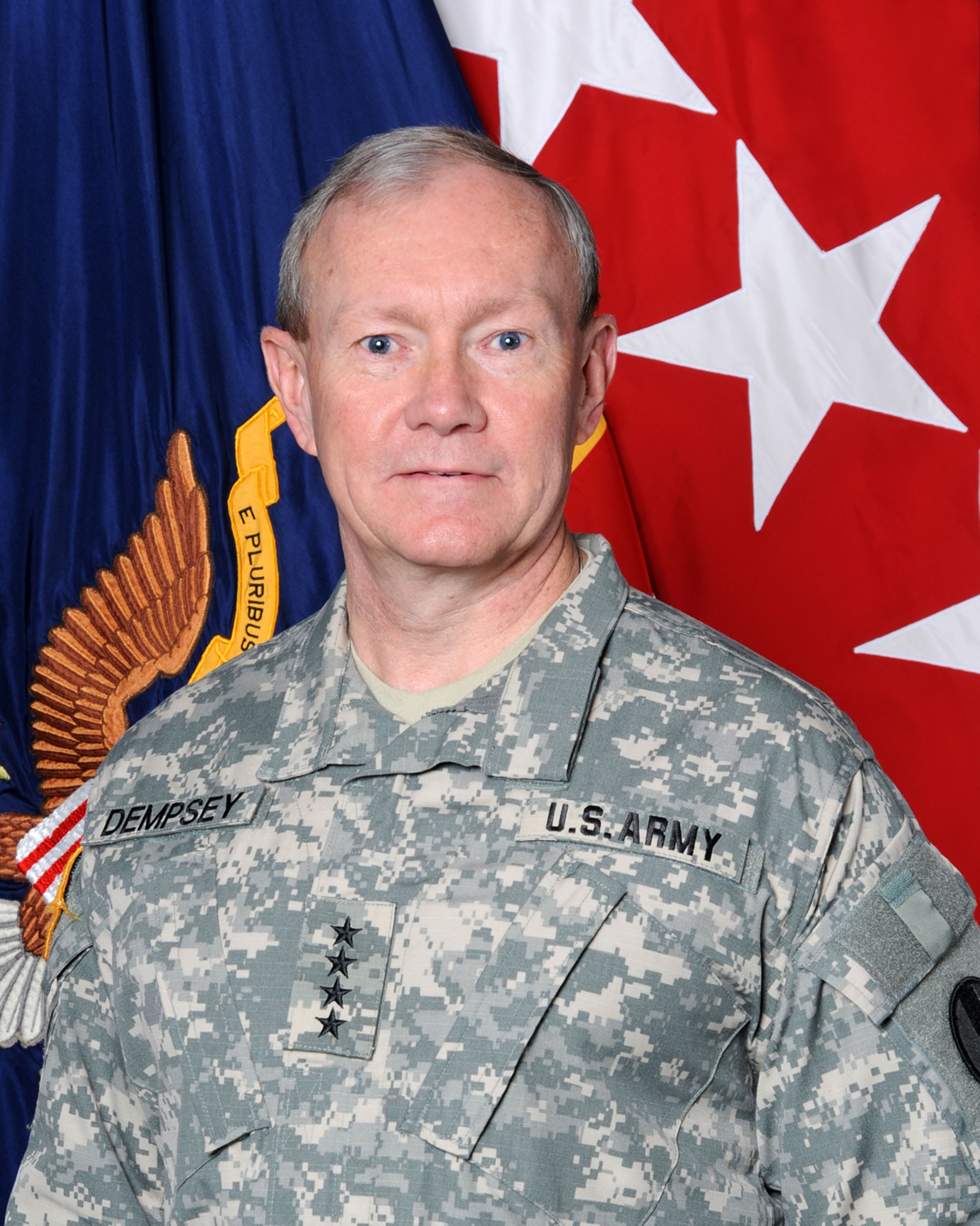 General Martin E. Dempsey, USACommanding General, U.S. Army Training and Doctrine Commandin Army combat uniform